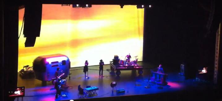 Puscifer live concert picture captured with my mobile phone.